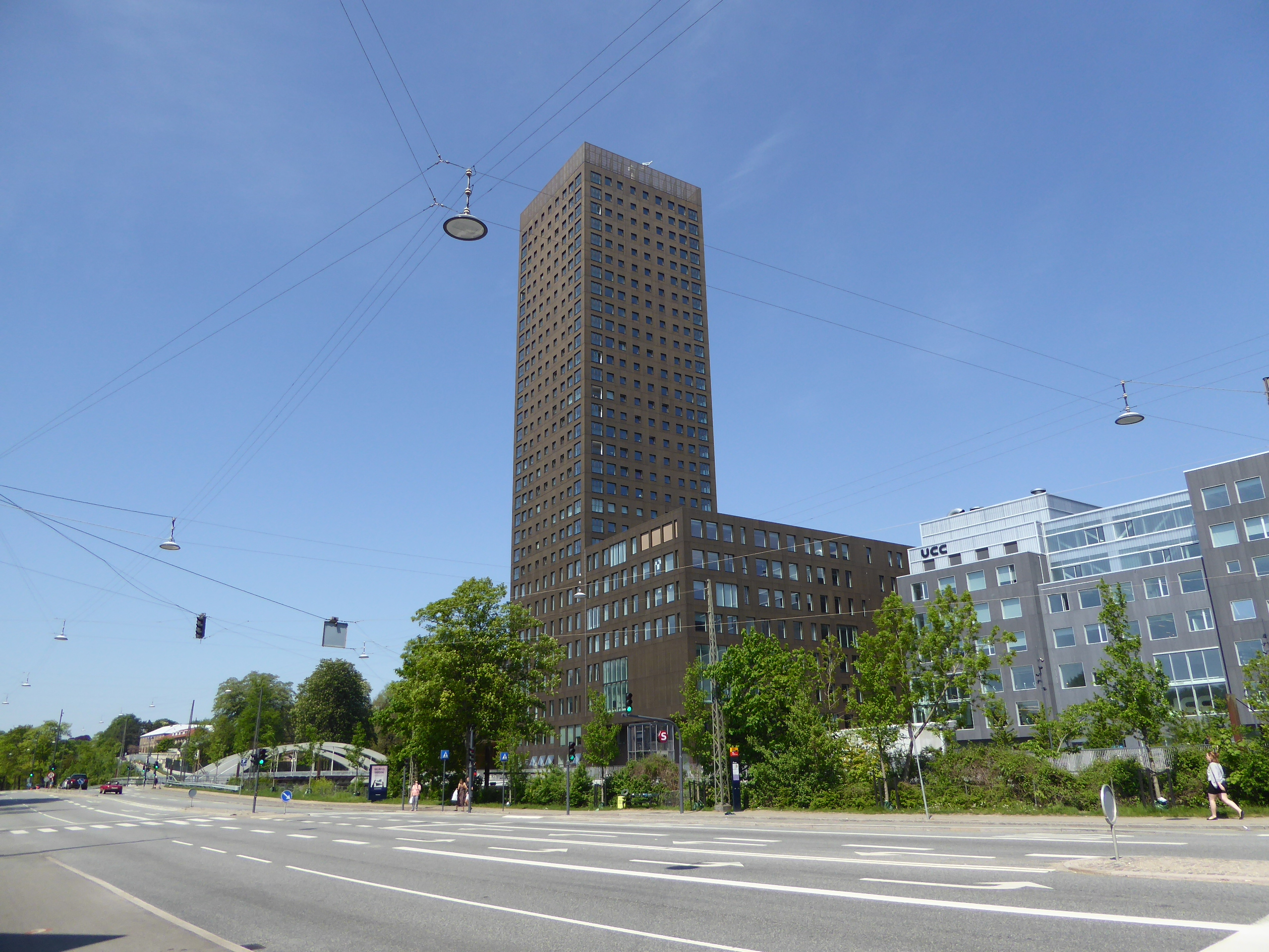 The high-rise Bohrs Tårn in Carlsberg Byen seen from Vigerslev Allé in Copenhagen.